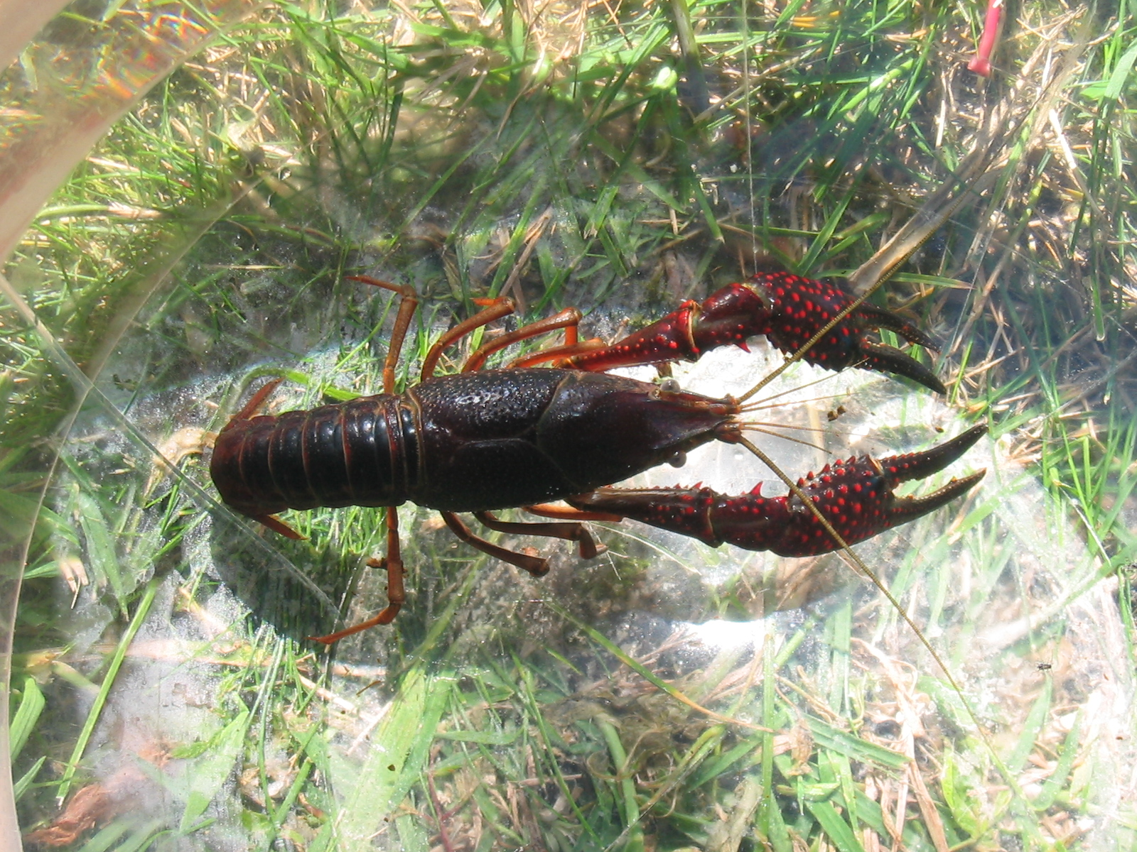 Procambarus clarkii taken near a lake in Gironde, France.